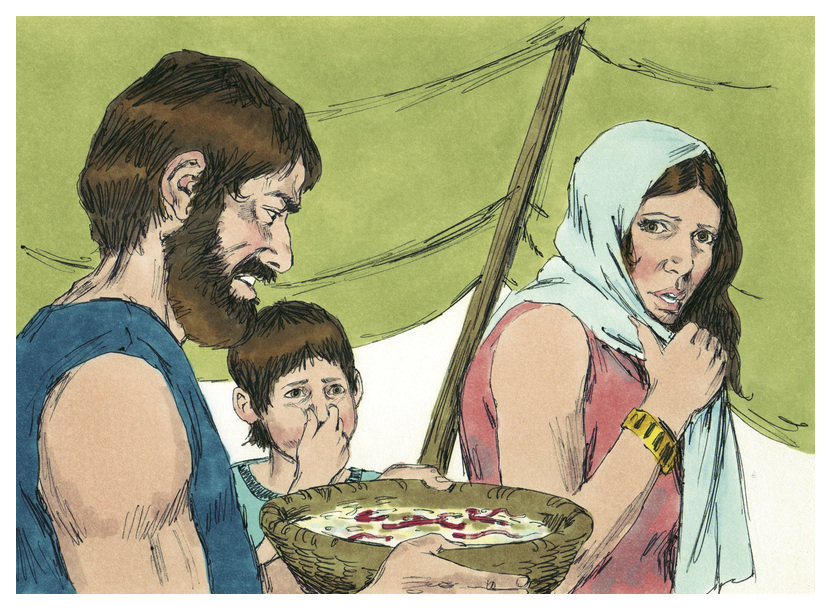 Biblical illustration of Book of Exodus Chapter 17